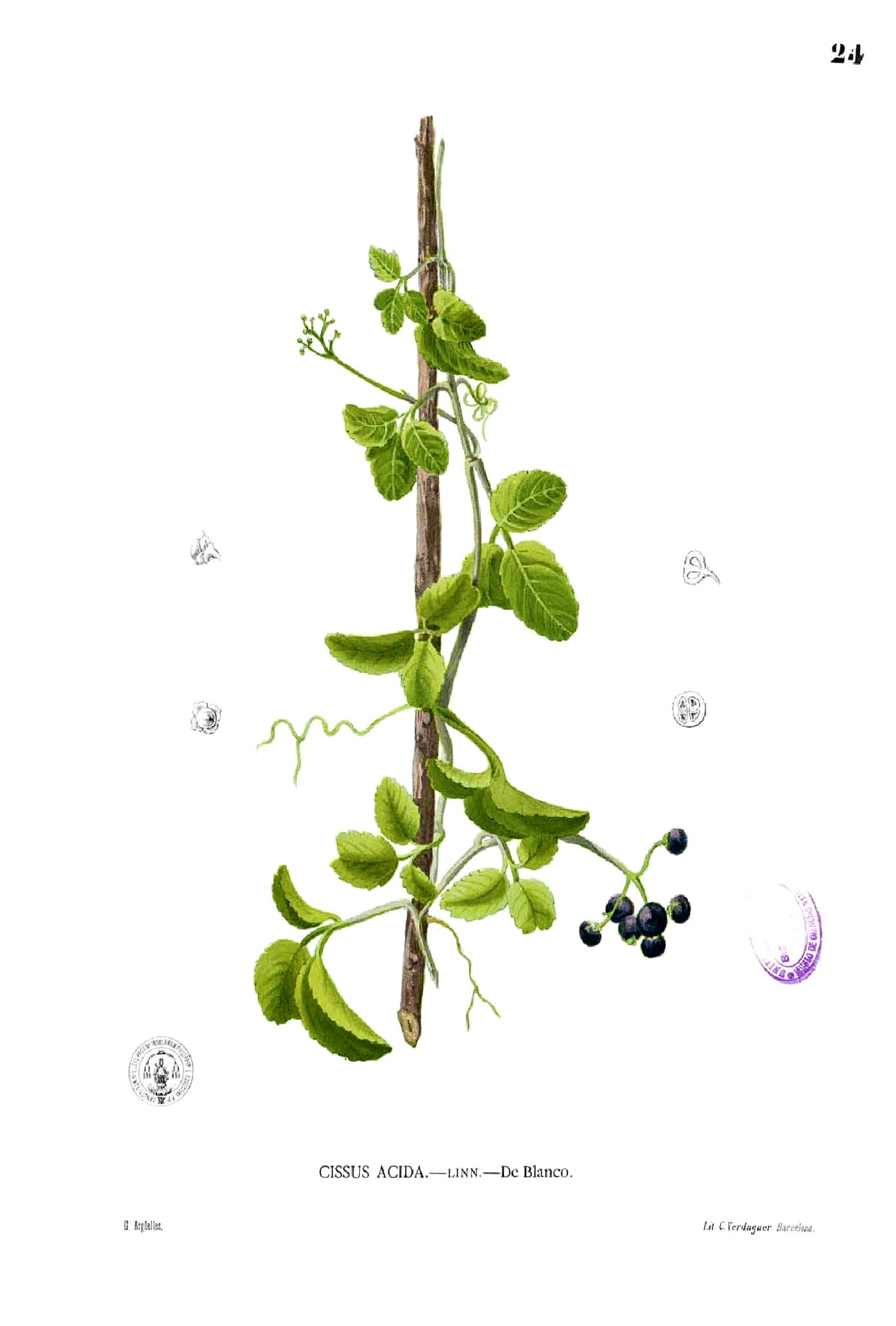 Plate from book